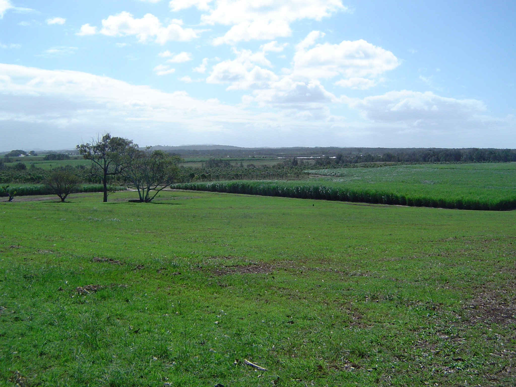 Photo of sugar cane fields at Steiglitz, Queensland, Australia.